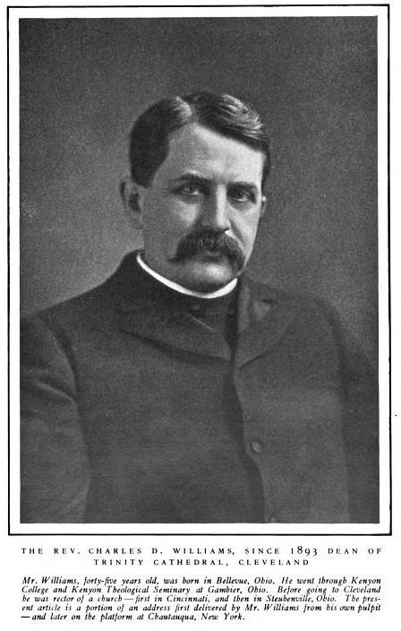 Charles David Williams was dean of Trinity Cathedral, Cleveland 1893-1906